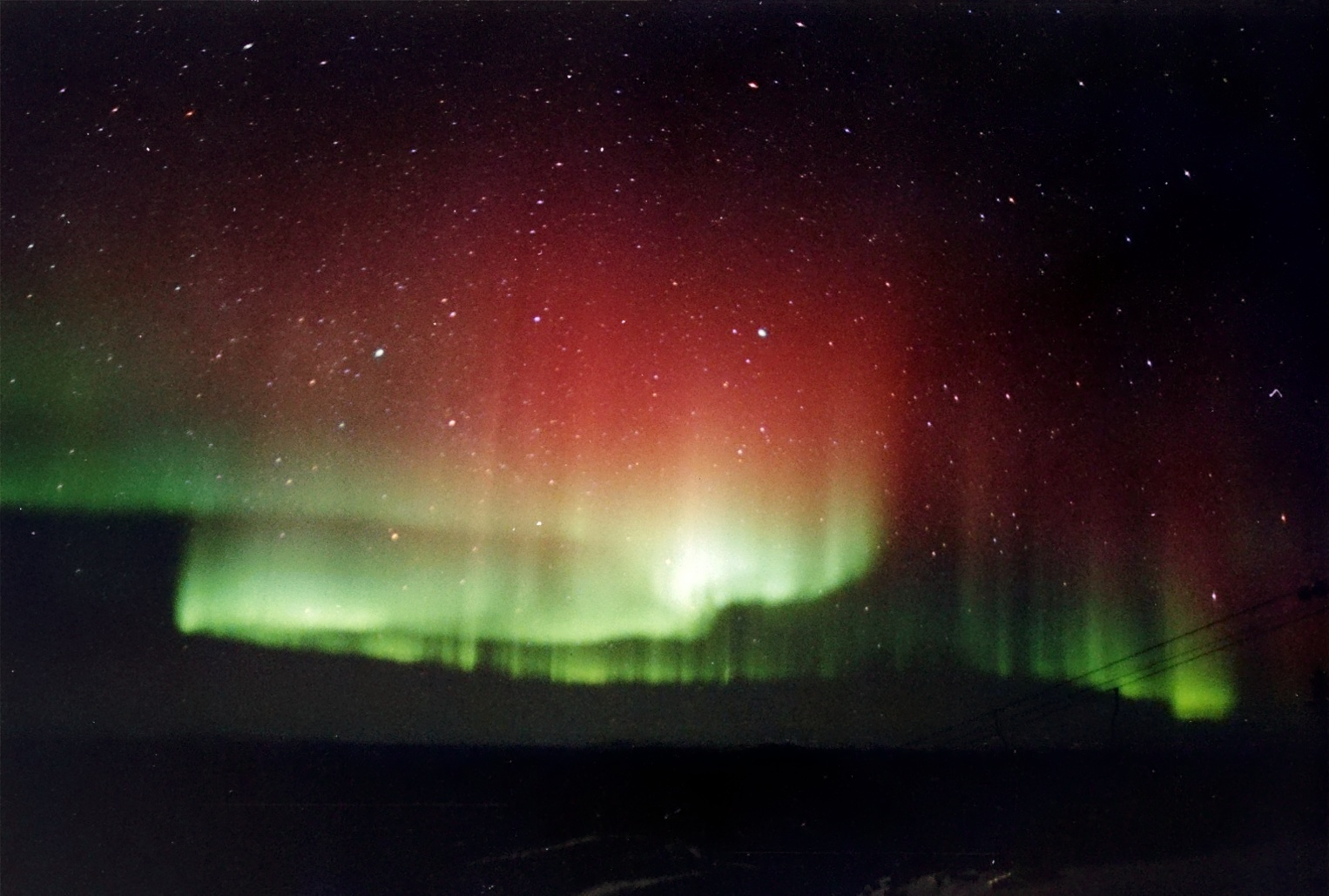 Red and green Aurora in Fairbanks, Alaska.